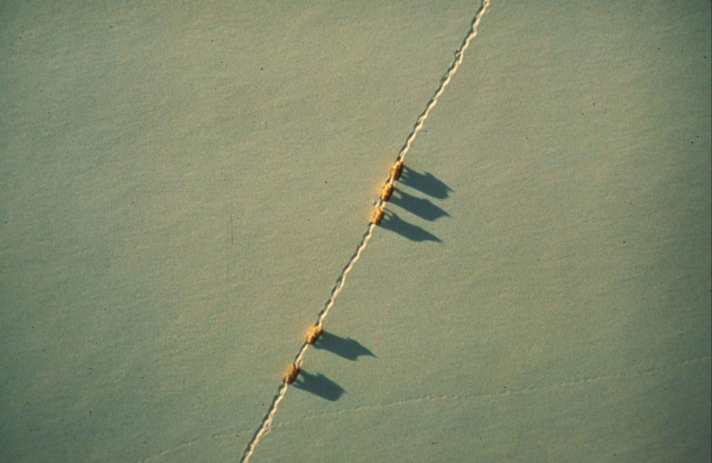 Image title: Aerial view of arctic wolf pack in snow canis lupus Image from Public domain images website